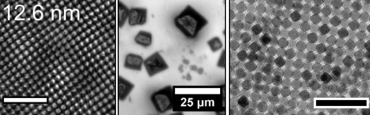 Self-assembled arrays and mesocrystals formed by the cubic iron oxide nanoparticles. (left) High resolution scanning electron microscopy (SEM) image of an ordered array of nanocubes taken from top-surfaces of self-assembled mesocrystals. Scale bar: 100 nm. The image has been FFT-filtered for clarity. (middle) Reflected light microscopy image of cuboidal mesocrystals composed of nanocubes by a conventional drop-casting procedure. (right) TEM image of a multilayer of nanocubes. Scale bar: 50 nm.